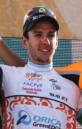 Adam Yates, winner of the youth classification of the Tour de San Luis 2014